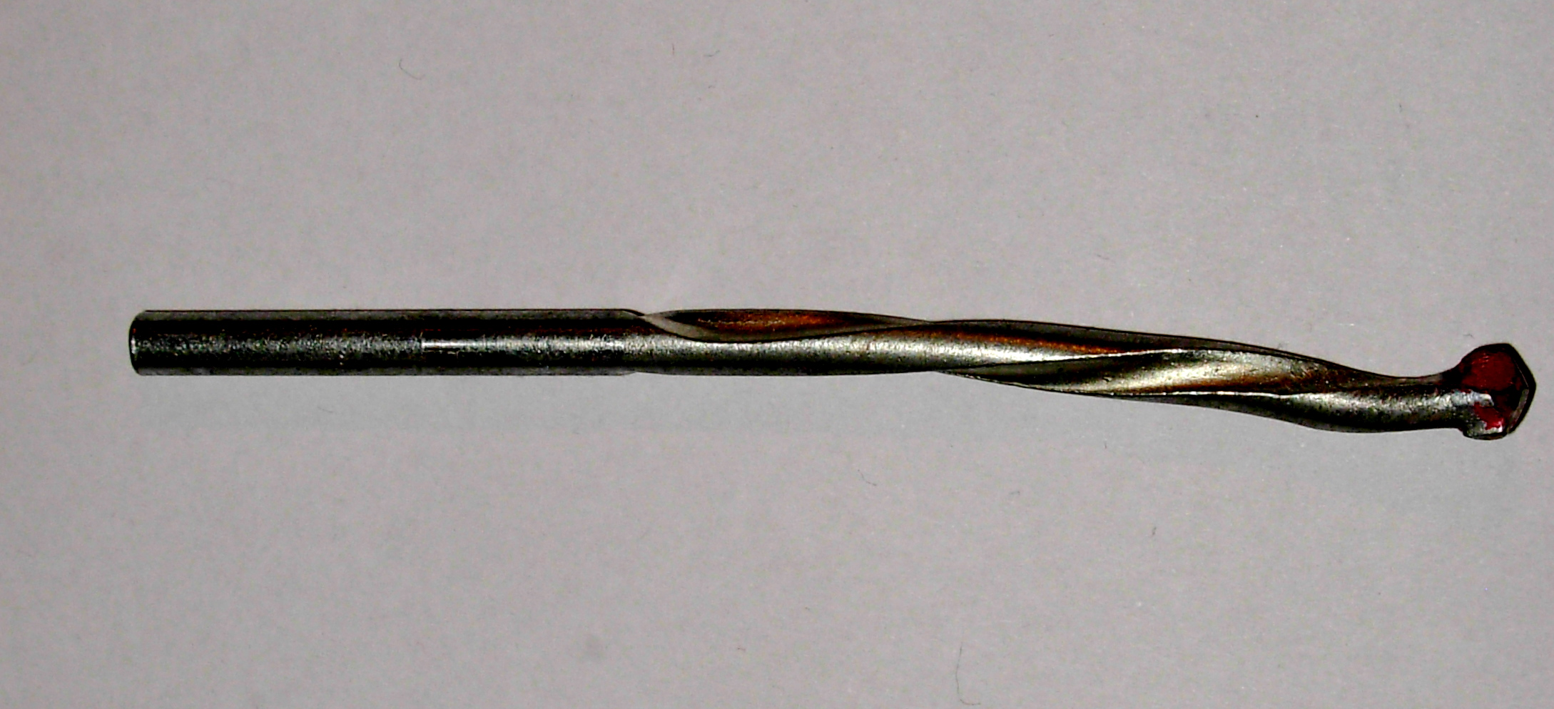 Deformed low quality drill bit